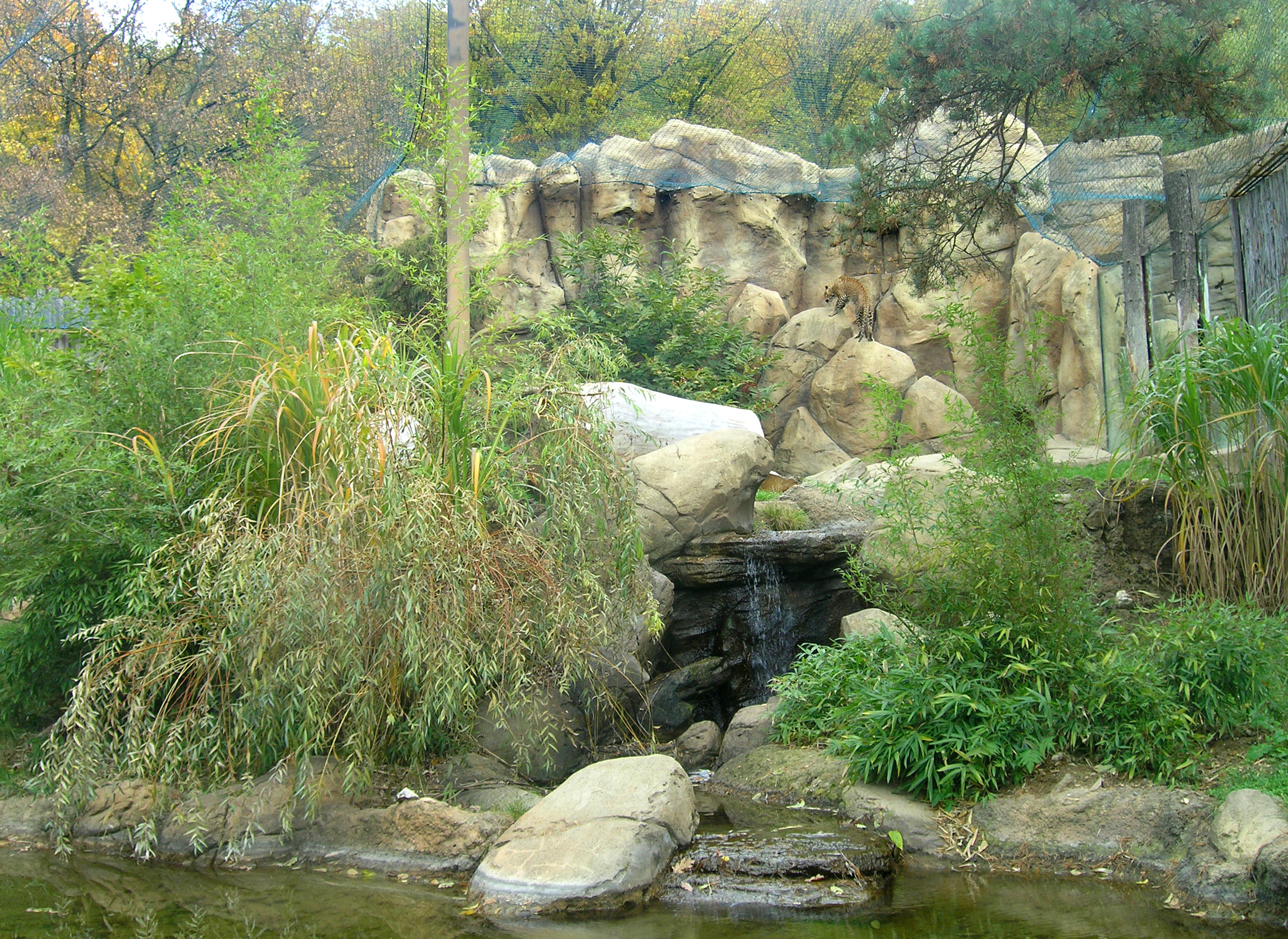 Tiger's rock exposition in Zoo Brno